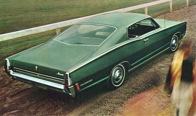 1968 Mercury Monterey 2-door fastback hardtop, side view